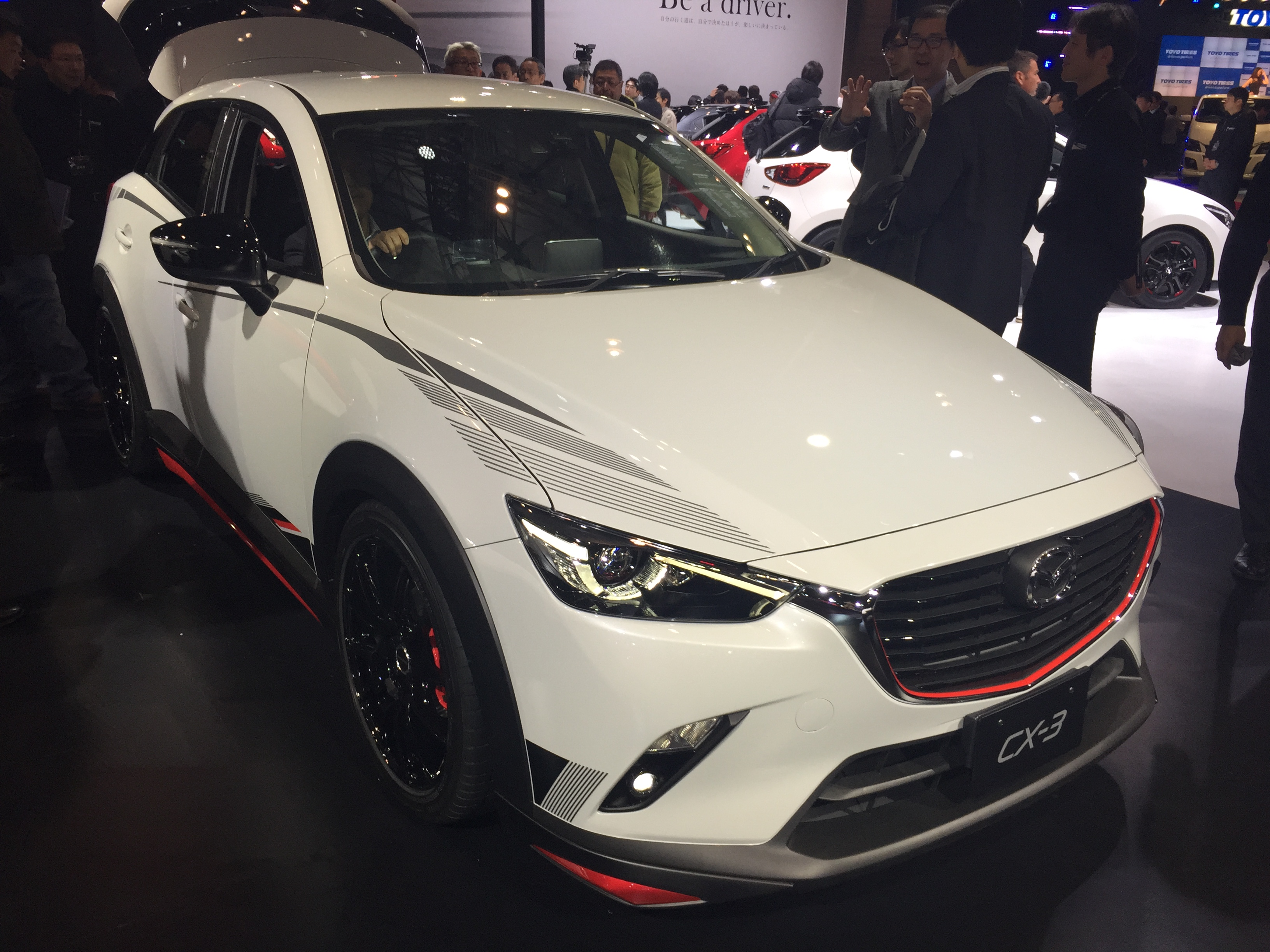 Mazda CX-3 Racing concept photographed at the Tokyo Auto Salon 2015.